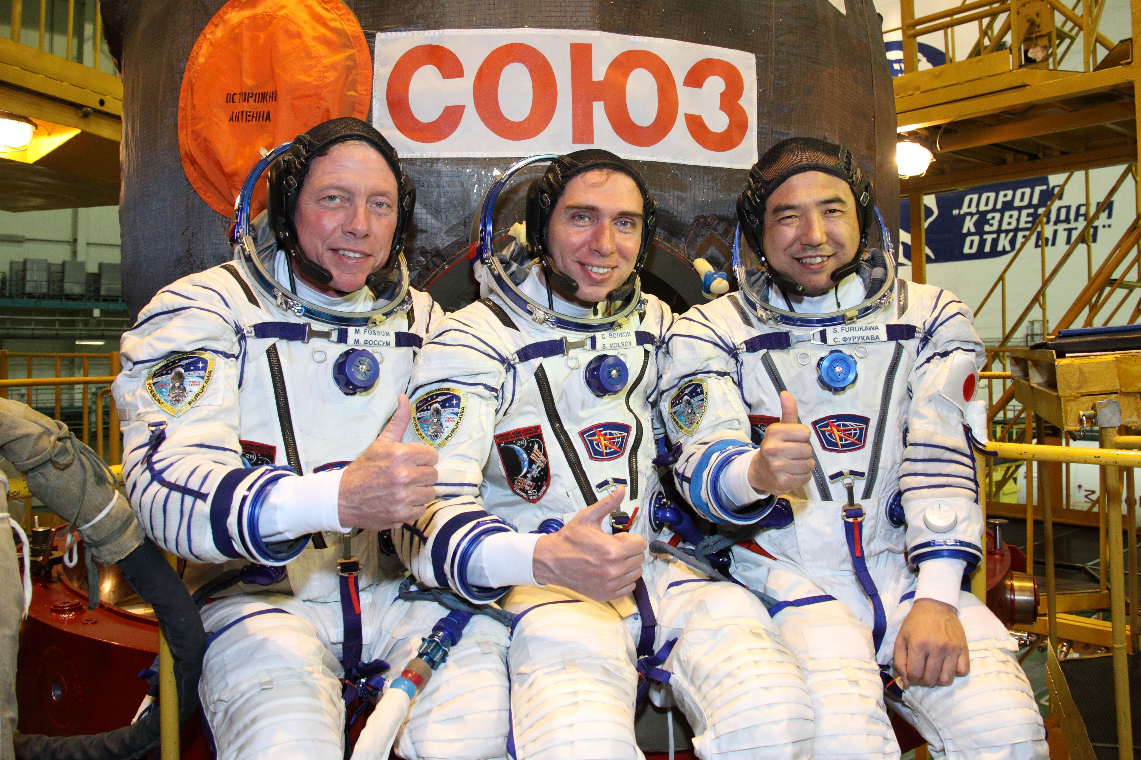 At the Baikonur Cosmodrome in Kazakhstan, NASA astronaut Mike Fossum (left), Expedition 28 flight engineer; Russian cosmonaut Sergei Volkov (center), Soyuz commander and flight engineer; and Japan Aerospace Exploration Agency astronaut Satoshi Furukawa, flight engineer, flash a thumbs up sign in front of their Soyuz TMA-02M spacecraft May 26, 2011 following a dress rehearsal checkout of the Soyuz systems. Fossum, Furukawa and Volkov are preparing for their launch June 8 (Kazakhstan time) from Baikonur to begin a five and a half month mission on the International Space Station.